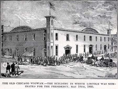 Wigwam